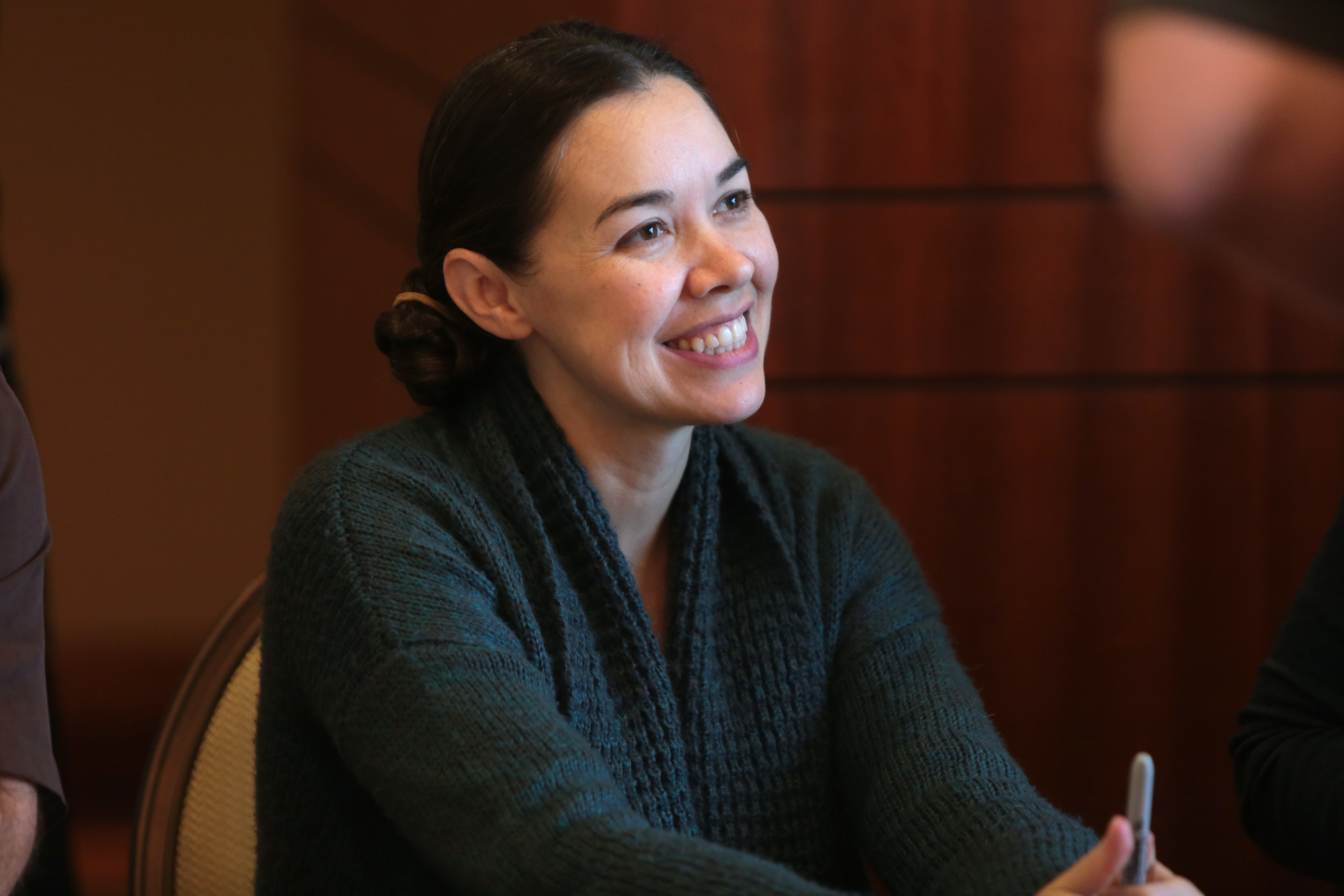 Tara Platt speaking at Saboten Con in Phoenix, Arizona.